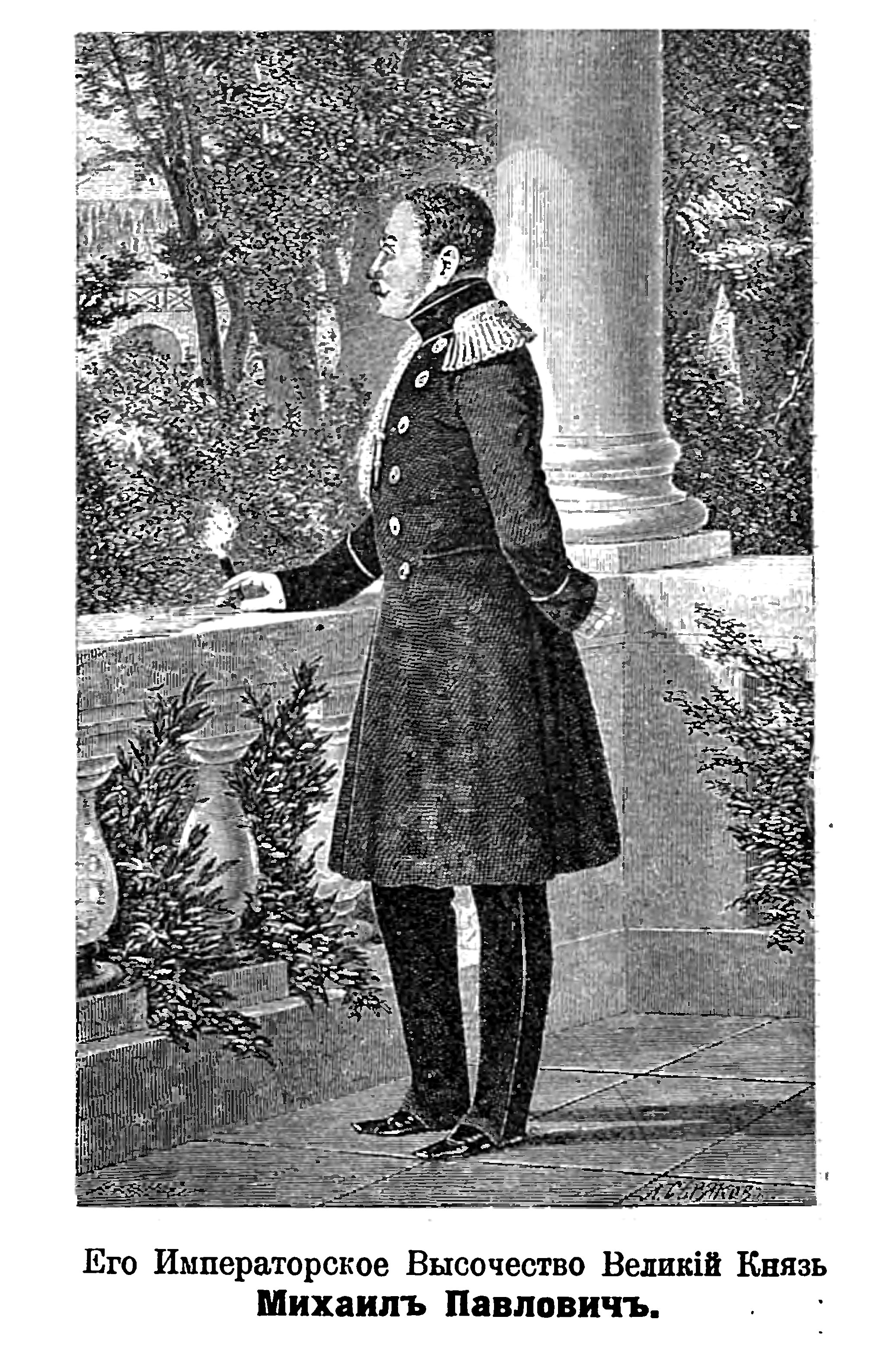 Grand Duke Michael Pavlovich of Russia (Russian: Михаи́л Па́влович; Mikhail Pavlovich) (8 February 1798 [OS 28 January] – 9 September 1849 [OS 28 August]) was a Russian prince, the tenth child and fourth son of Paul I of Russia and Sophie Dorothea of Württemberg. He was born in St. Petersburg.